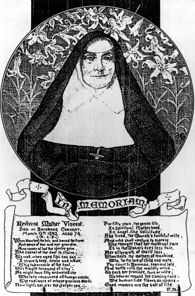 Memorial card for Mother Mary Vincent Whitty. Mother Whitty (1818 - 1892) died at the Brisbane Convent on 9 March 1892.